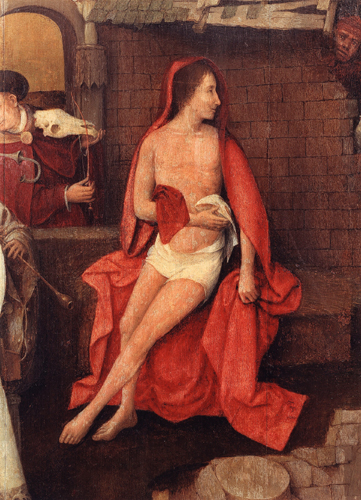 Job Triptych [detail].